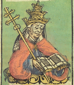 Woodcut from the Nuremberg Chronicle (Latin copy in Sao Paulo)